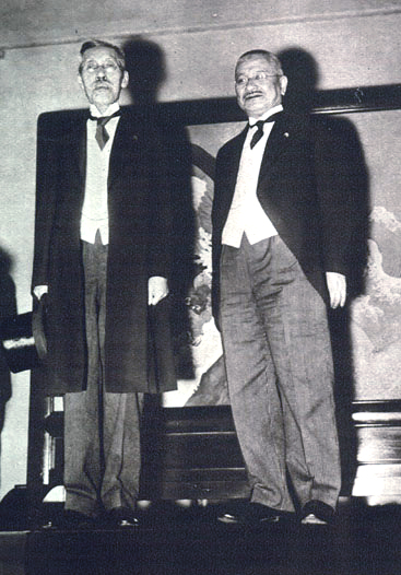 The former Japanese Prime Minister Kiichirō Hiranuma (平沼騏一郎, 1867–1952, in office 1939) batonpassing the office of the executive branch to his successor Prime Minister Nobuyuki Abe (阿部信行, 1875–1953, in office 1939–40) at the Kantei (総理官邸).